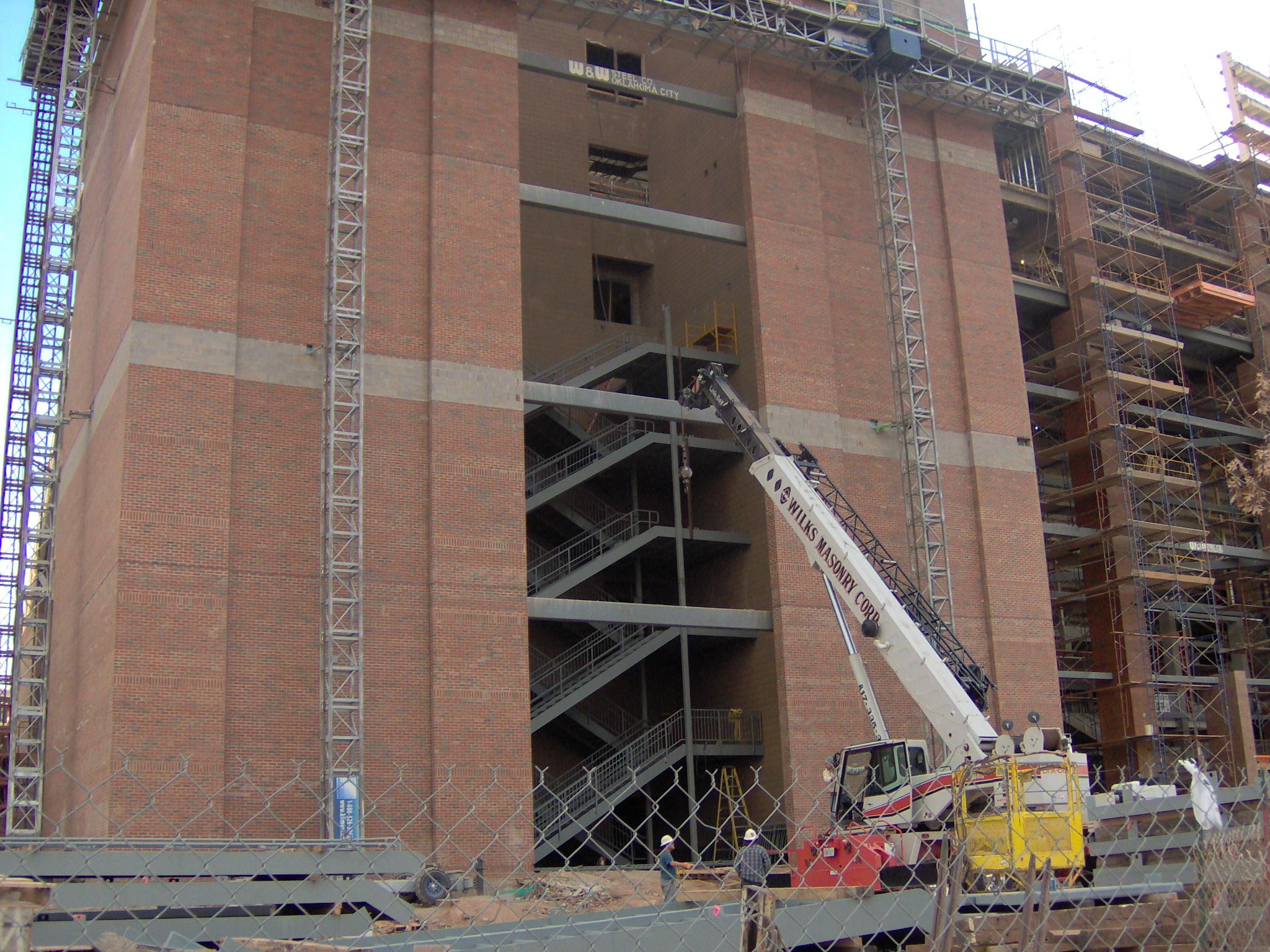 Construction work, as part of expansion of Boone Pickens Stadium